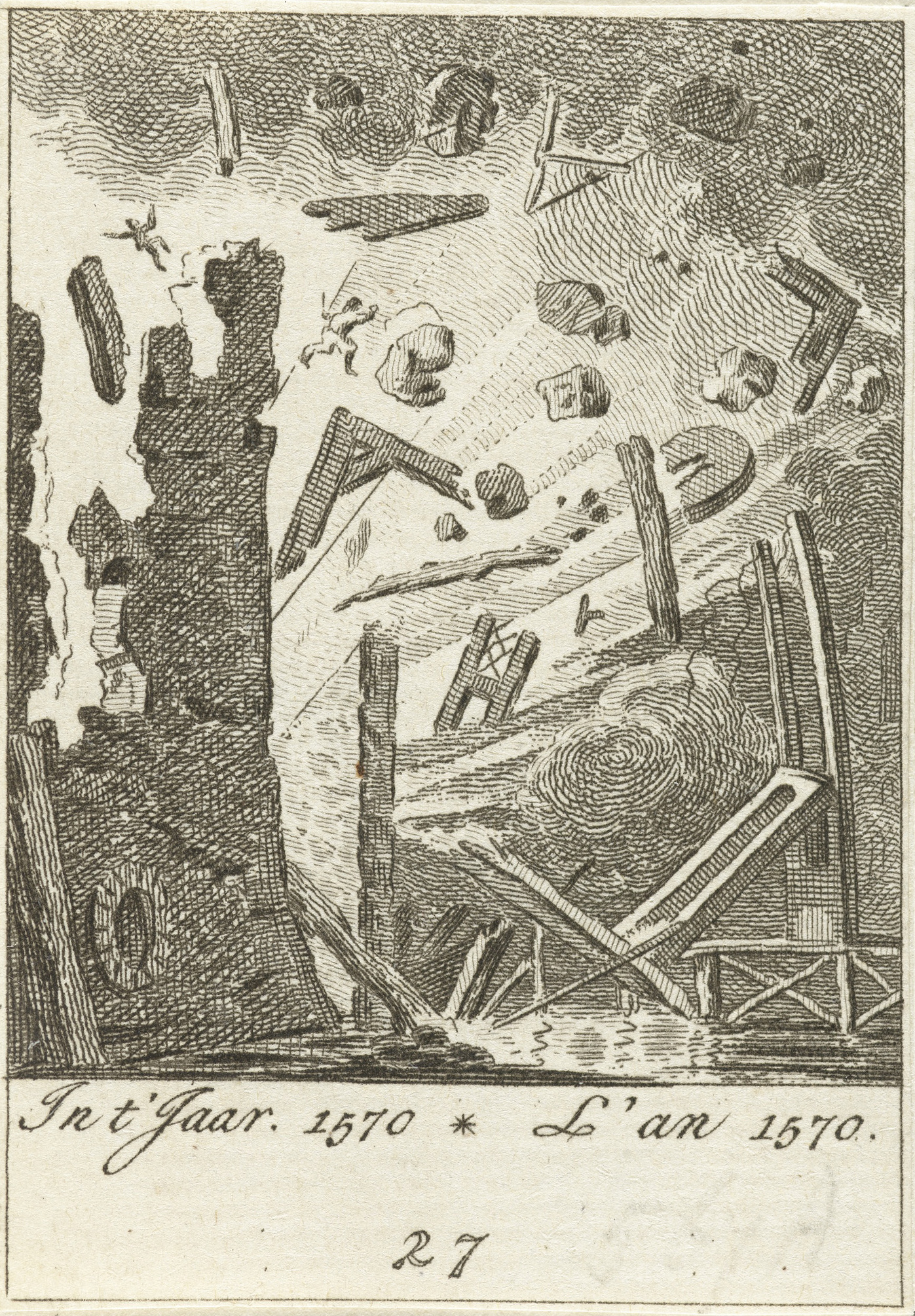 Explosion of Loevstein, Netherlands